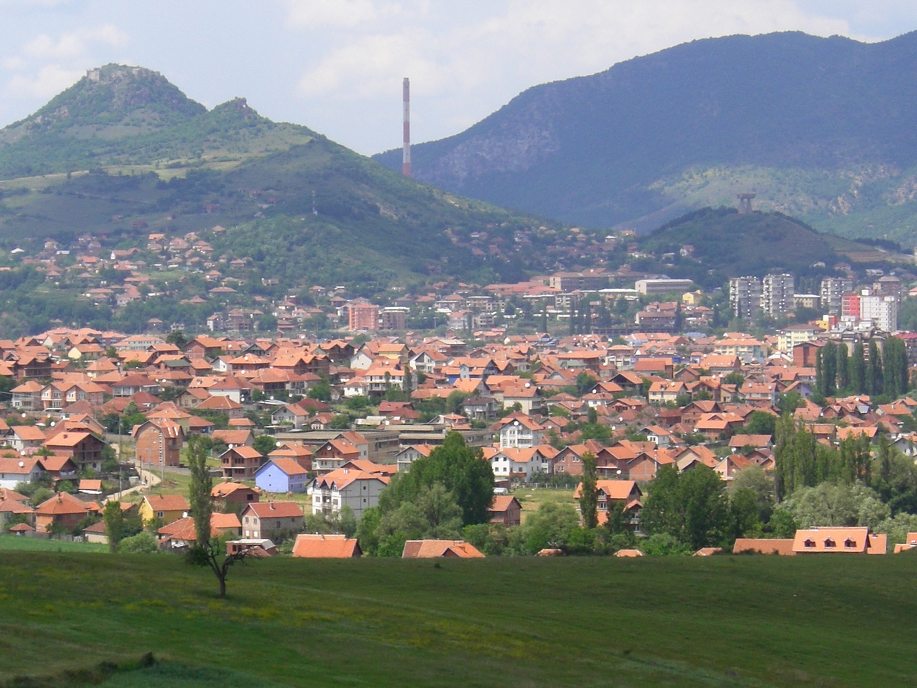 North Kosovska Mitrovica, on the top on the mountain in the right is Zvečan Fortress.